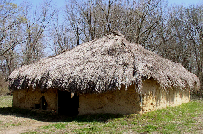 A wattle and daub house used by Native Americans during the Mississippian culture period.